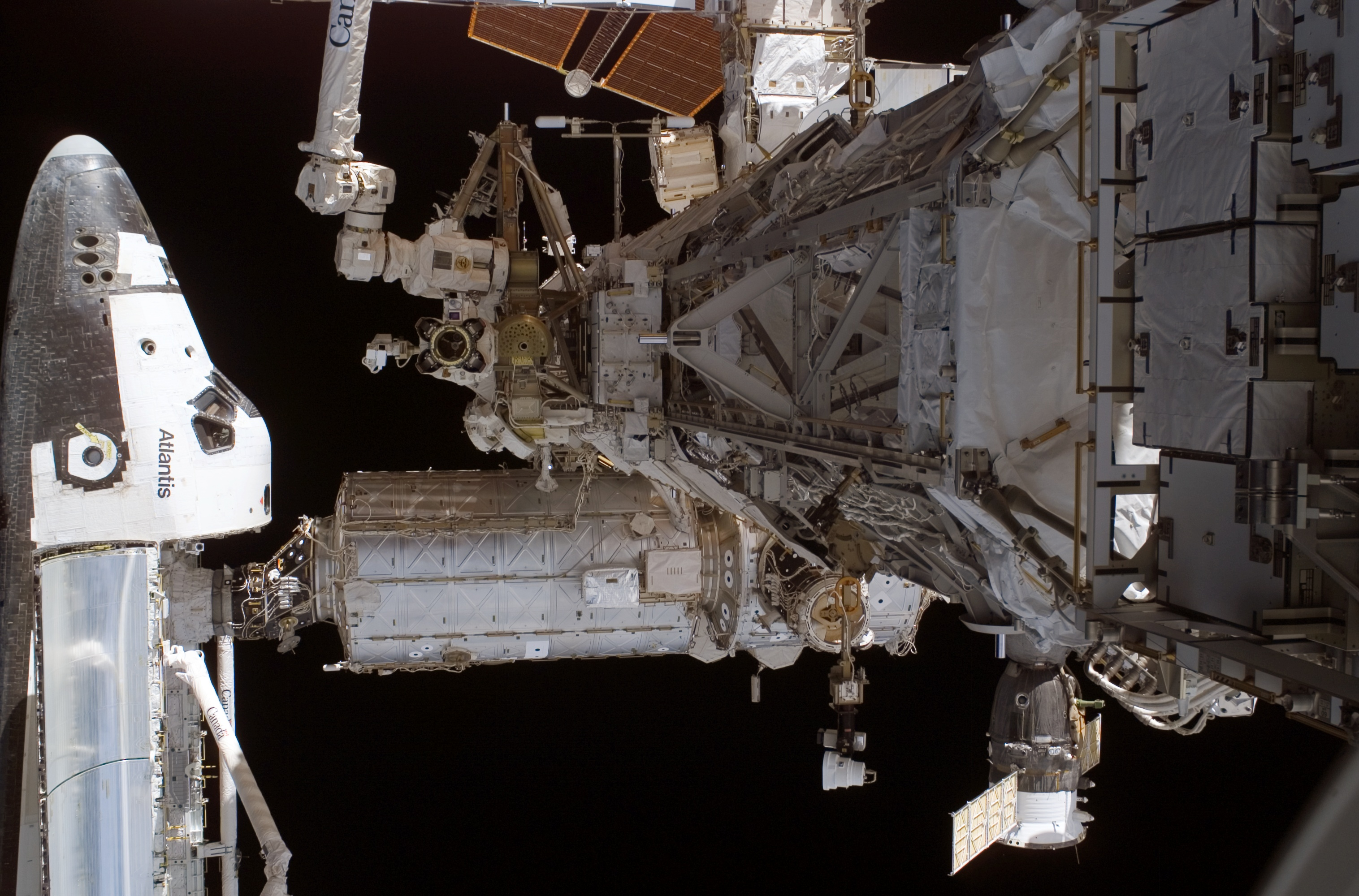 Although no astronauts are visible in this picture, action was brisk outside the space shuttle/space station tandem when this digital still image was recorded on Sept. 12. Astronauts Joseph R. Tanner and Heidemarie M. Stefanyshyn-Piper participated in the first of three scheduled STS-115 extravehicular activity (EVA) sessions as the Atlantis astronauts and the Expedition 13 crew members join efforts this week to resume construction of the International Space Station.